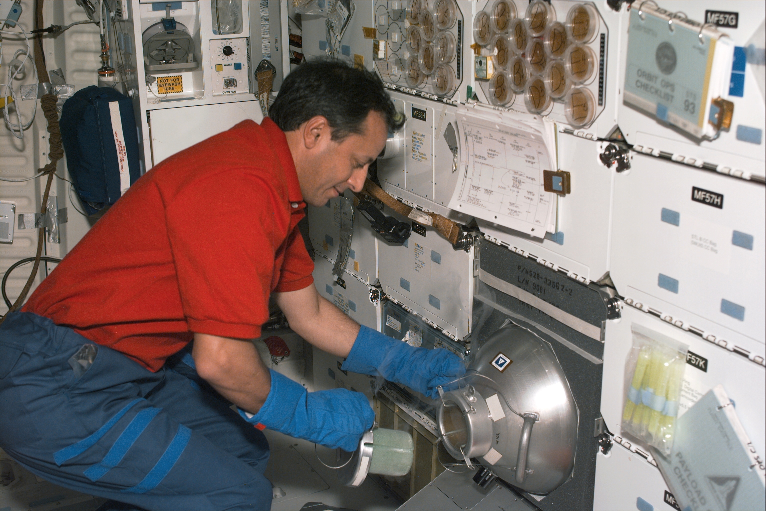 S93-E-5006 (23 July 1999) --- Astronaut Michel Tognini, mission specialist representing the French space agency (CNES), opens the gaseous nitrogen (GN2) freezer on Columbia's middeck. The freezer is flown in support of two plant growth experiments--Plant Growth Investigations in Microgravity (PGIM) and Biological Research in Canisters (BRIC). Throughout the mission Tognini periodically freezes samples from the experiments to provide glimpses of the plants in various stages of development. The photo was recorded with an electronic still camera (ESC) on Flight Day 1.